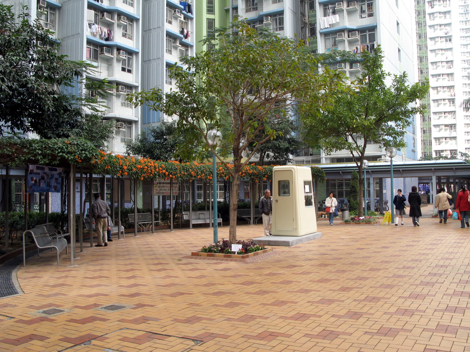 HK Tin Chak Estate in Tin Shui Wai North